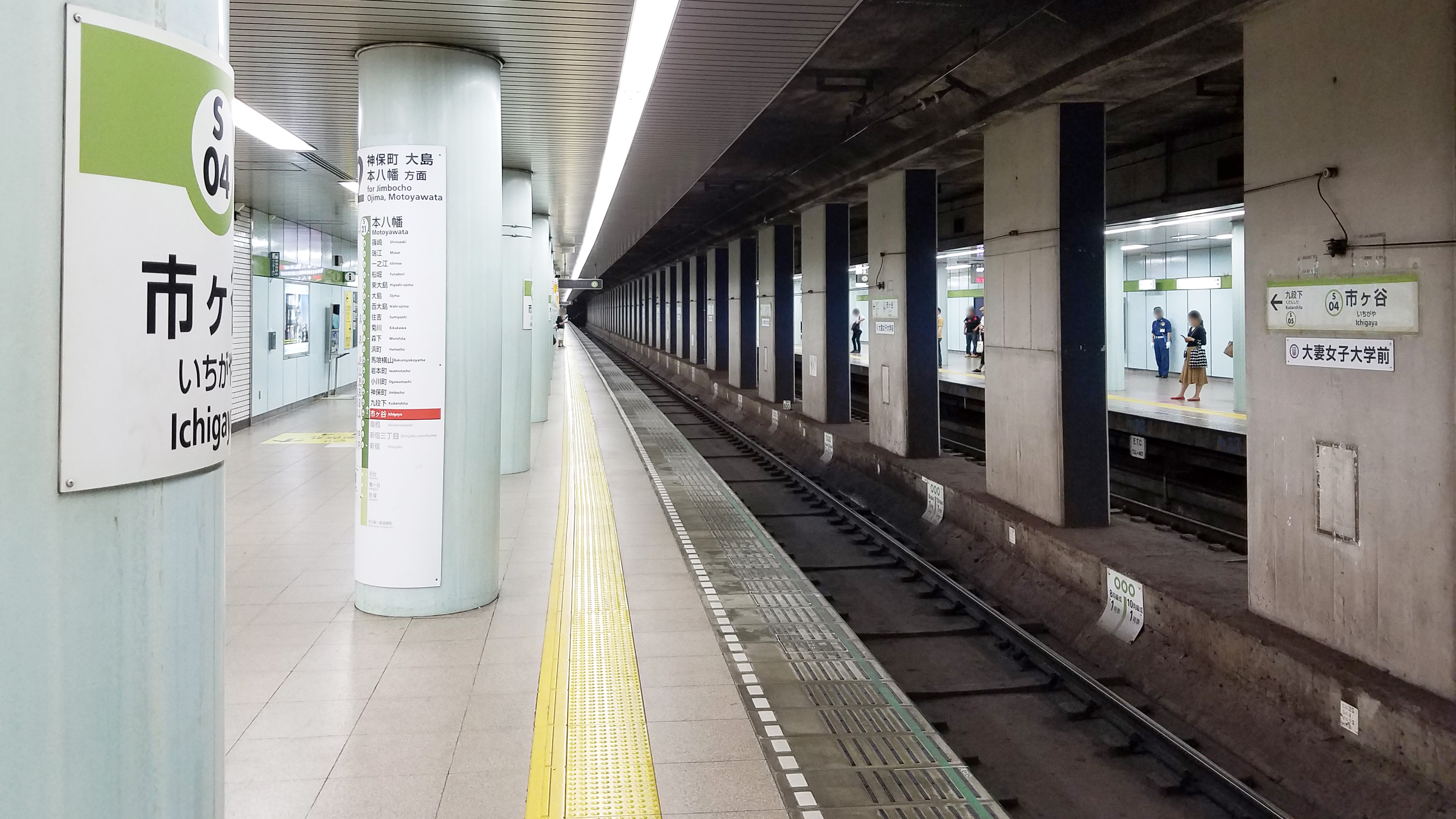 The platforms at Ichigaya Station on the Toei Shinjuku Line in Chiyoda city, Tokyo, Japan